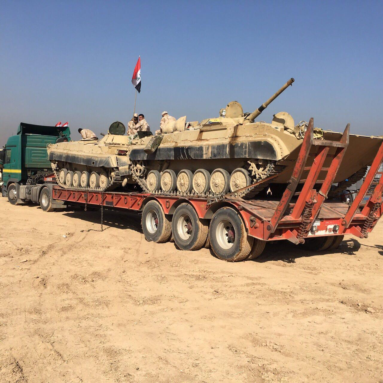 Iraqi security forces transport combat equipment to tactical assembly areas in preparation for the Mosul offensive with assistance from the 313th Movement Control Battalion forward element, near Makhmur, Iraq, Oct. 18, 2016. The 313th Movement Control Battalion headquarters is located in Baltimore, Maryland, and deployed this summer in support of 1st Sustainment Command (Theater). A Coalition of regional and international nations have joined together to enable Iraqi forces to counter the Islamic State of Iraq and the Levant (ISIL), reestablish Iraq’s borders and re-take lost terrain thereby restoring regional stability and security. (U.S. Army photo by Maj. Damien Krantz)